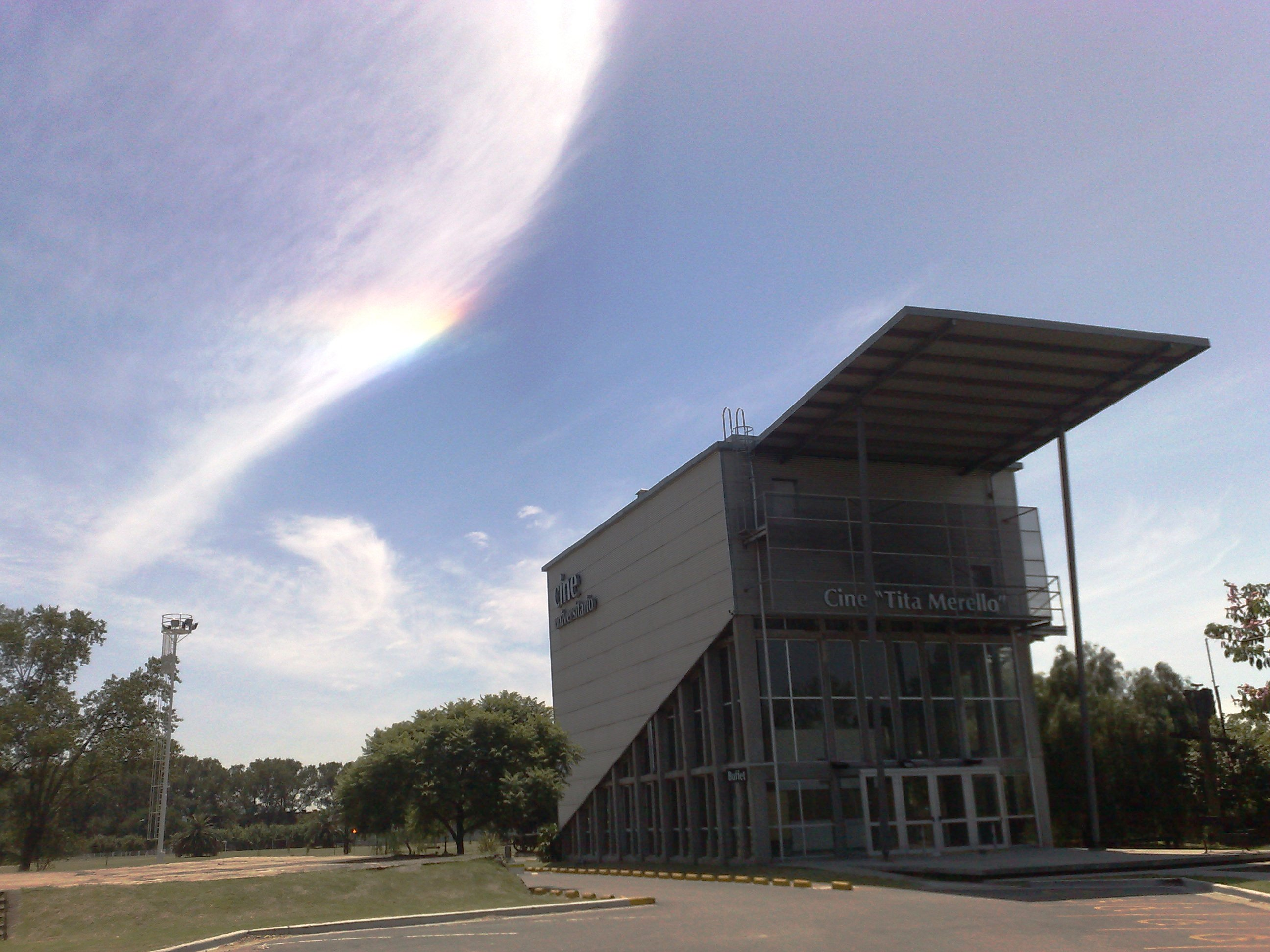 Tita Merello's University Cinema Building. Universidad Nacional de Lanús, UNLa. Remedios de Escalada, Buenos Aires, Argentina.